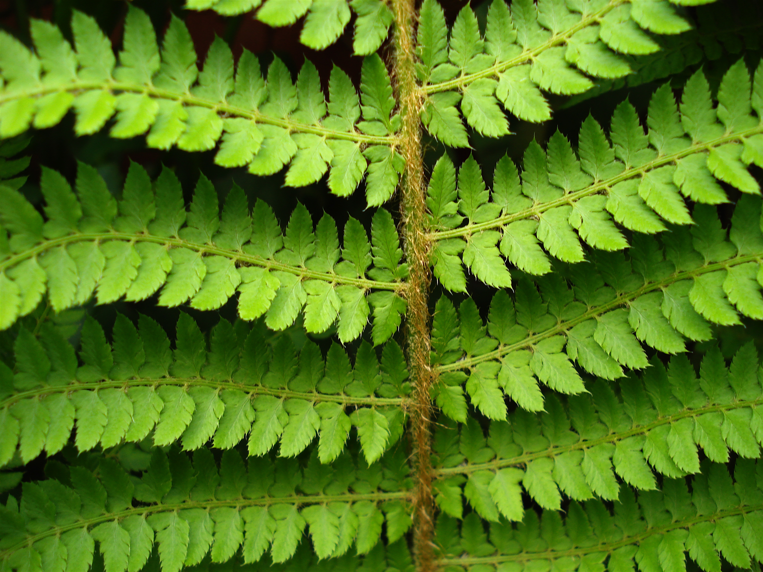 Polystichum setiferum detail. England.